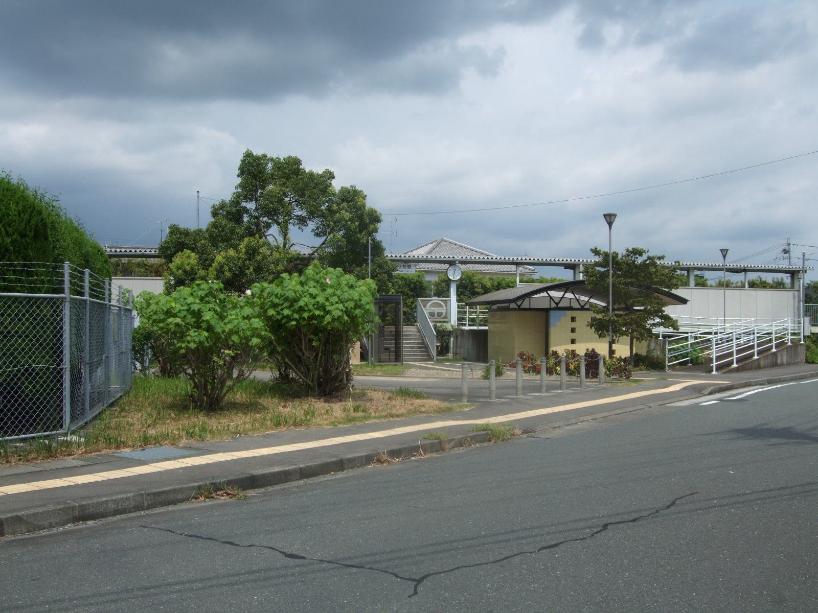 Tenryu Hamanako Line, Kakegawa-shiyakusho-mae Station outside view